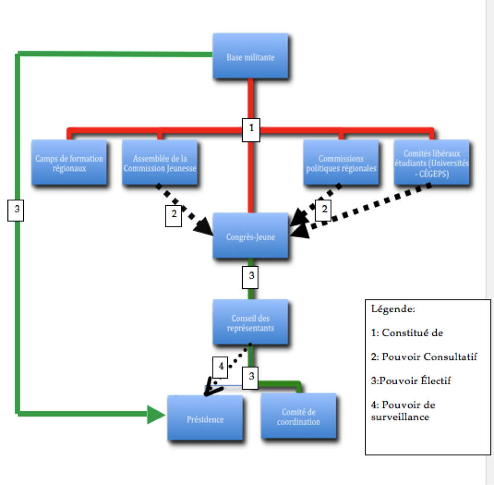 Graphique représentant la structure interne de la Commission-Jeunesse du Parti libéral du Québec